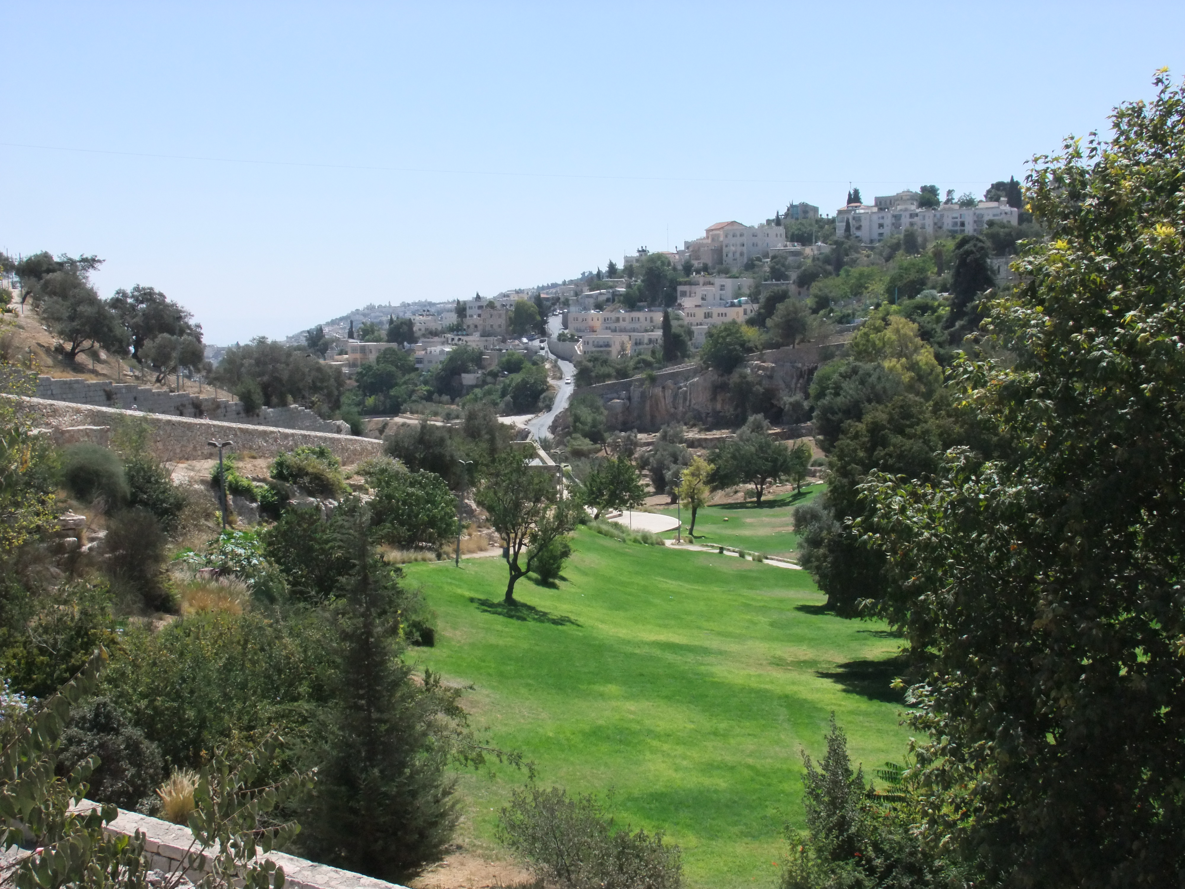 Valley of Hinnom, Geography of Israel